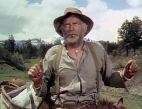 Screenshot of Millard Mitchell from the film The Naked Spur (1953)